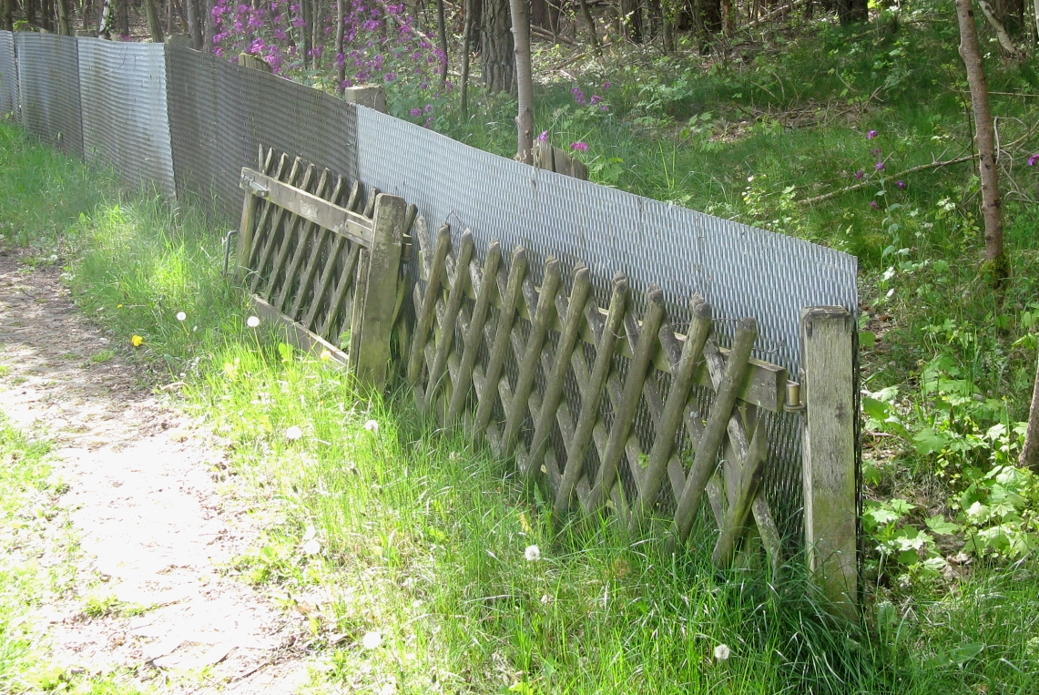 Former fence of inner German border in private usage in Polz, Dömitz, Mecklenburg-Vorpommern, Germany